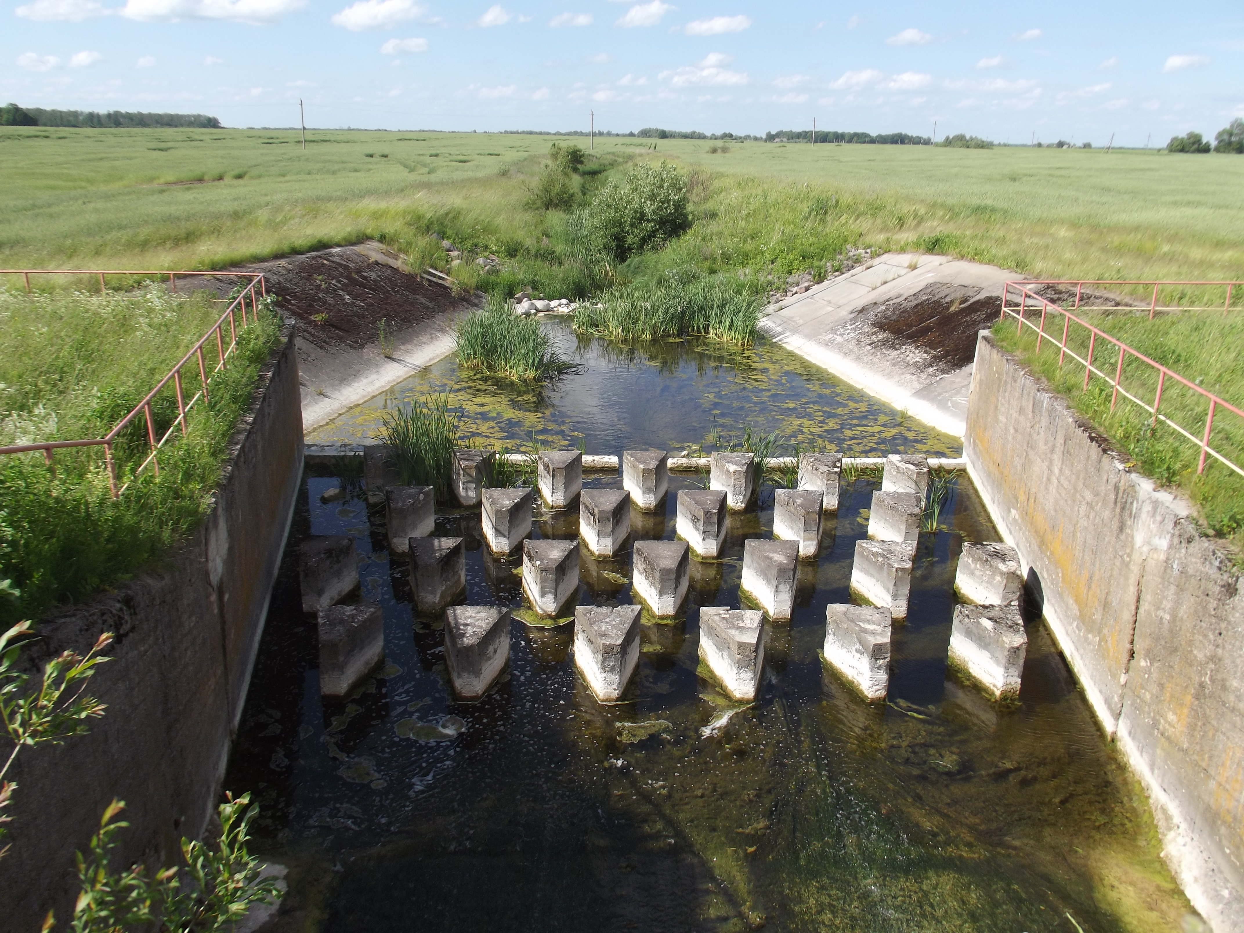 Pond in Baltausiai on Beržtalis River, Pakruojis district. Lithuania